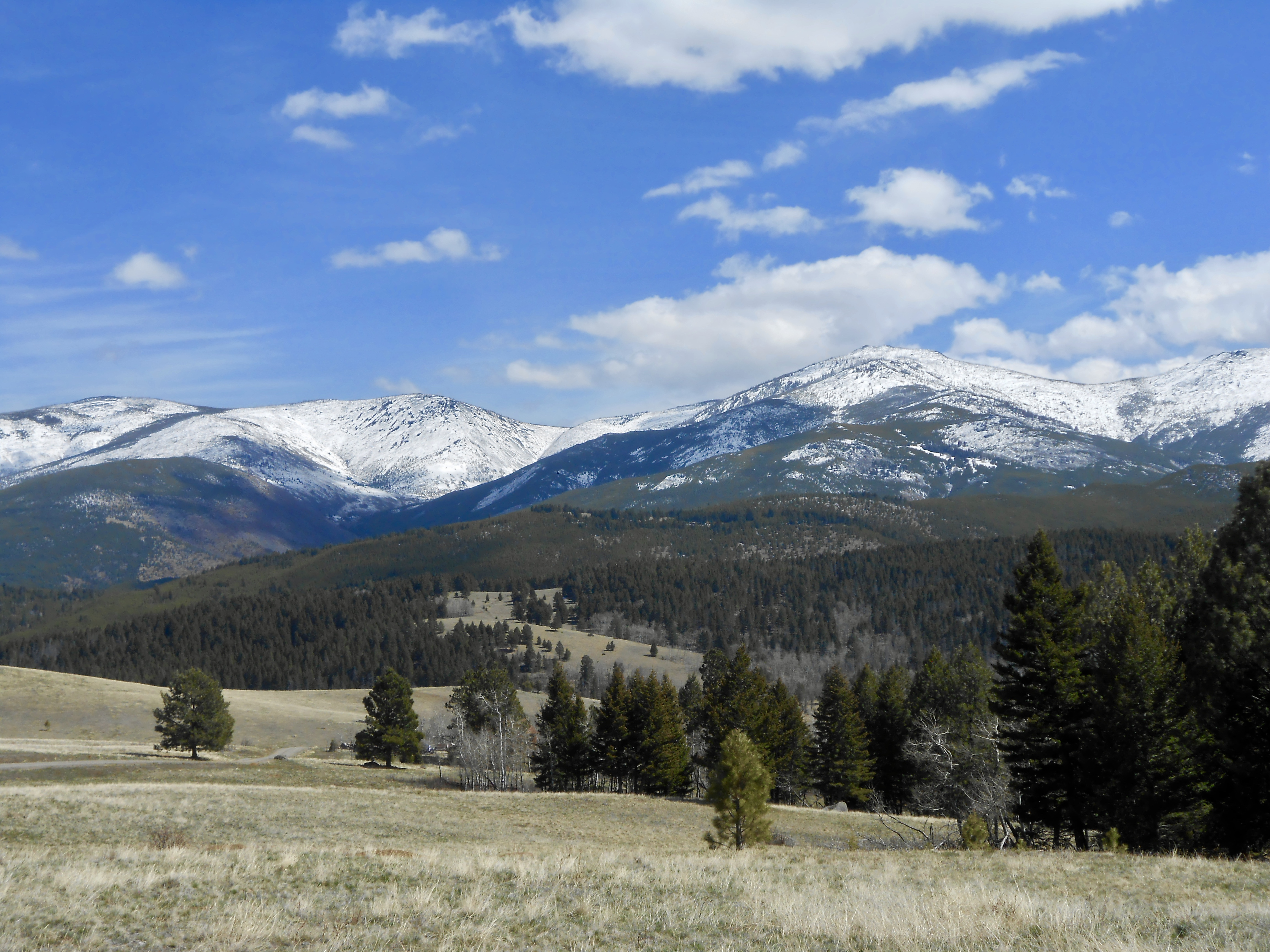 Elkhorn Mountains, taken from Warm Springs Creek Road, Jefferson County, Montana.